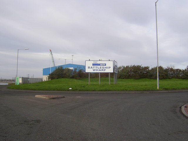 Battleship Wharf Blyth Harbour's New Dock Area